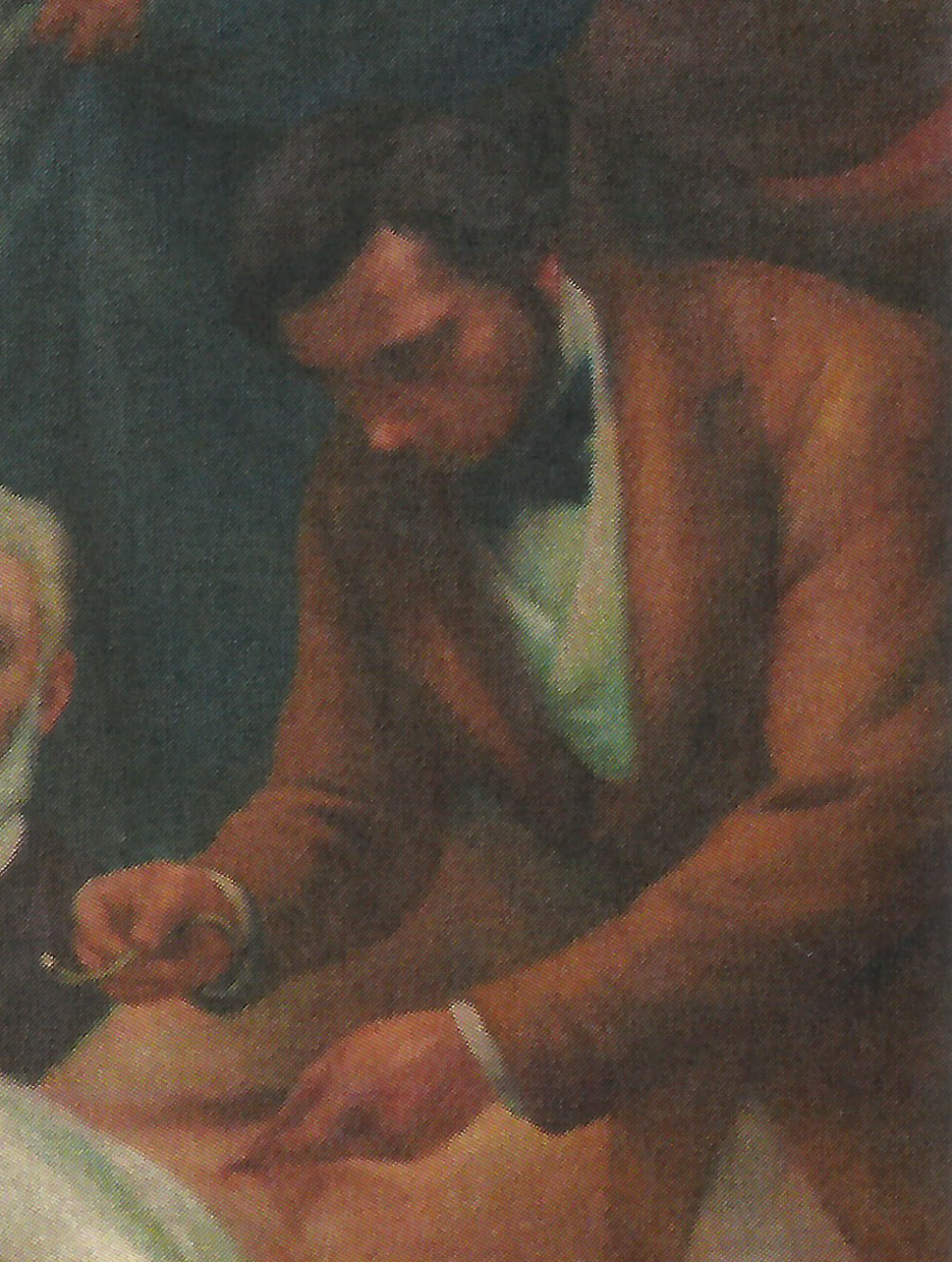 "Portuguese Medicine" (c. 1906), by Veloso Salgado